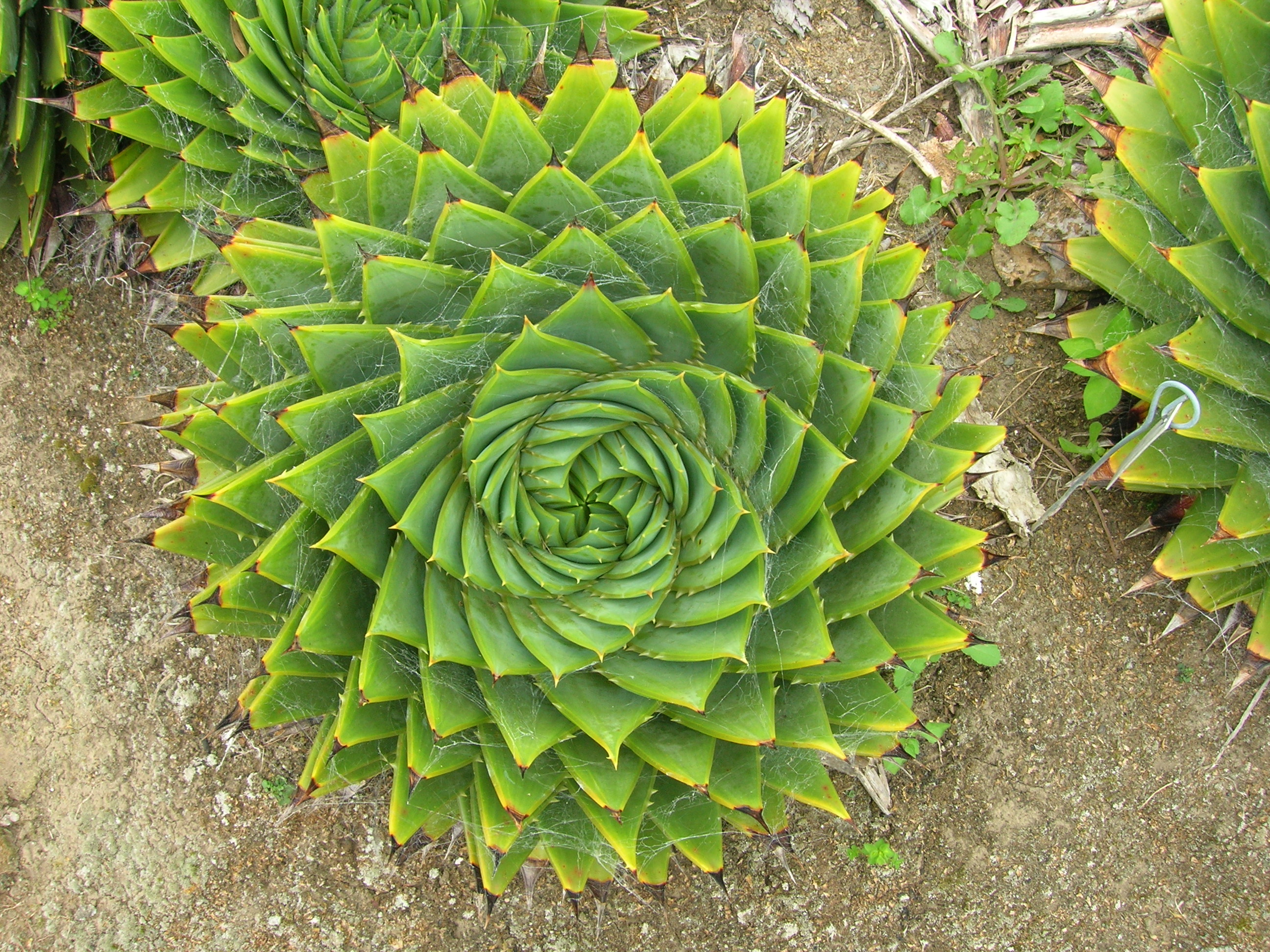 Aloe polyphylla Schönland ex Pillans Asphodelaceae Also placed in: Aloaceae Monocot Spiral Aloe Endangered native of the Maluti Mountains in Lesotho, Africa. Grows in rock crevices at high altitudes, Only alpine member of the genus Aloe. Threats to populations of spiral aloe include overgrazing, unsustainable harvesting by plant enthusiasts and people interested in its medicinal properties, and the increasing rarity of its pollinator, the Malachite Sunbird. from Also see Paloma Gardens, Cliive & Nicki Higgie, Fordell, Wanganui, North Island, New Zealand Northwest Horticulture Society November, 2005 tour i110405 112 Note: Aloe polyphylla is listed in CITES (the Convention on International Trade in Endangered Species of Wild Fauna and Flora) Appendix I lists as a most endangered among CITES-listed plants.